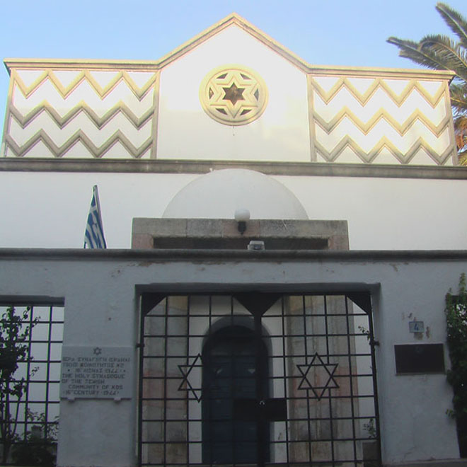 Kos synagogue. Credit: Courtesy of Arie Darzi to memorialize the Jewish community in Greece.